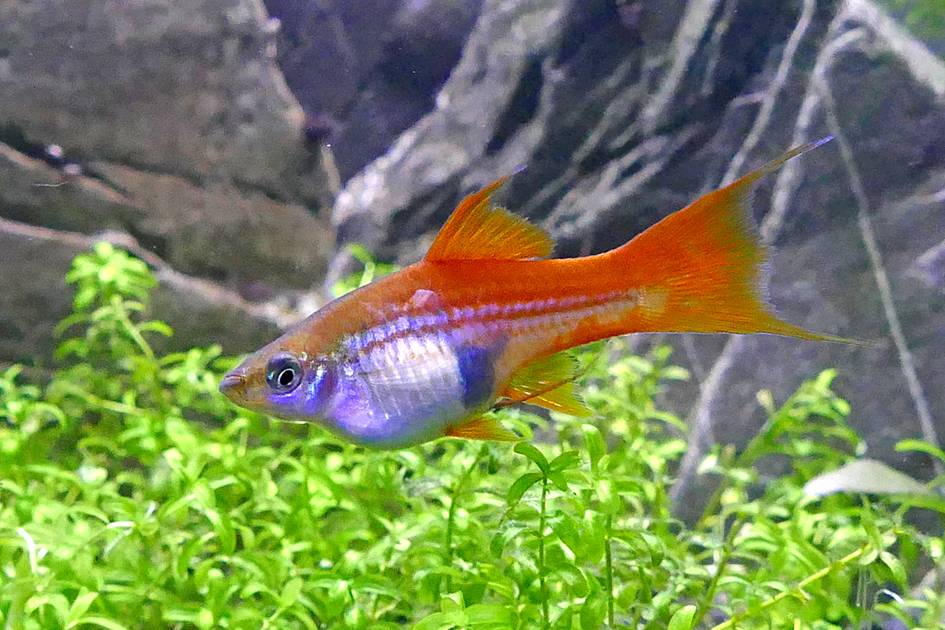 Xiphophorus Hellerii, Green Swordtail, lyretail (female, pregnant)